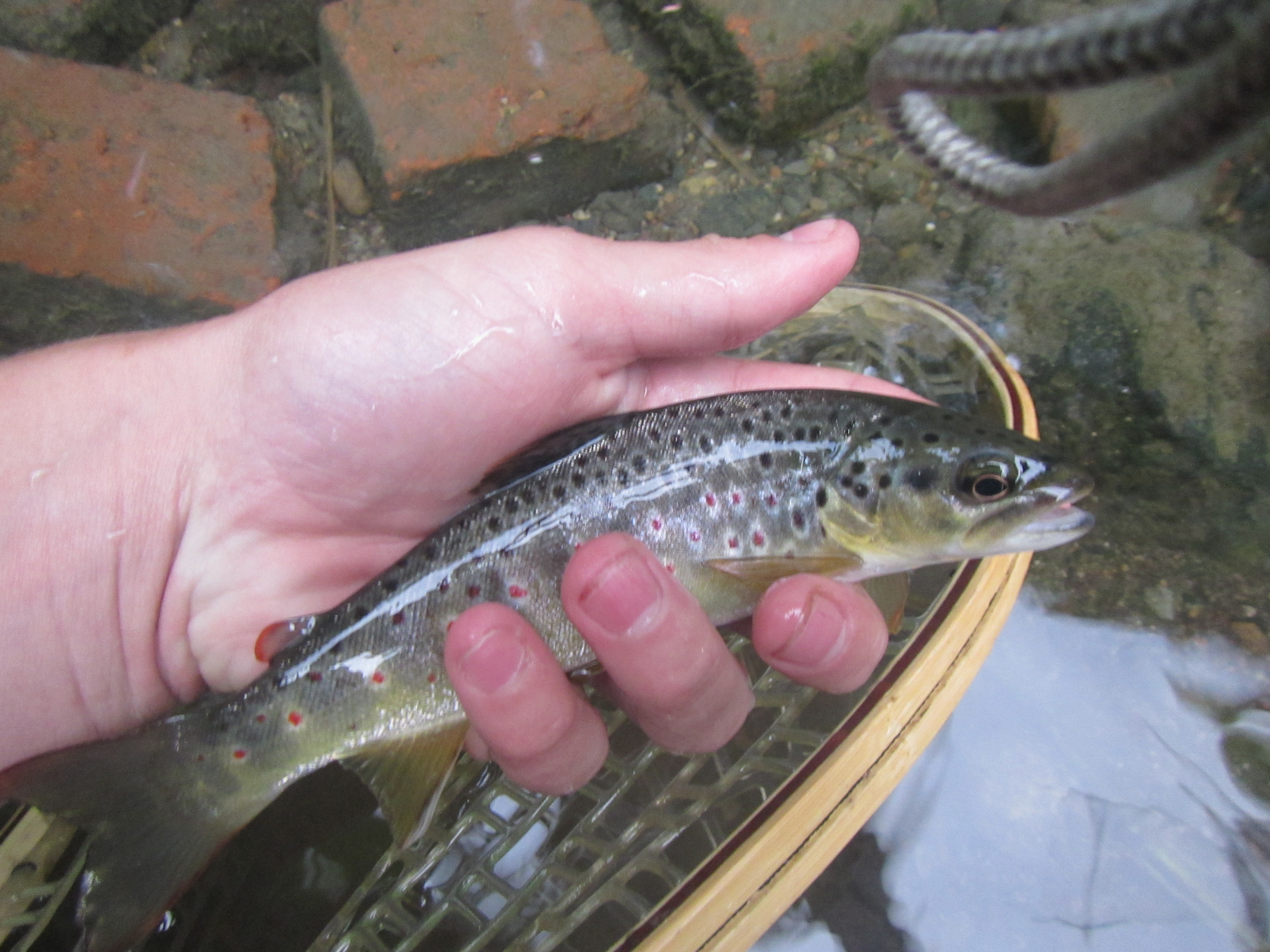 Mountain Creek holds wild brown and brook trout.